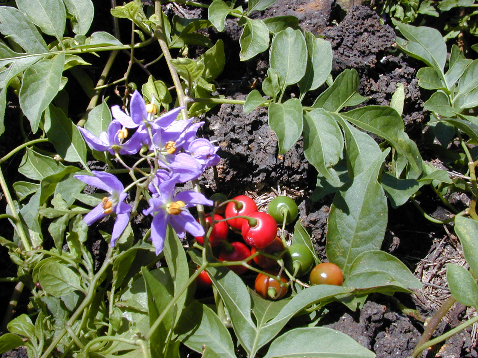 Solanum seaforthianum (foliage, flowers and fruit). Location: Maui, Puu o Kali.